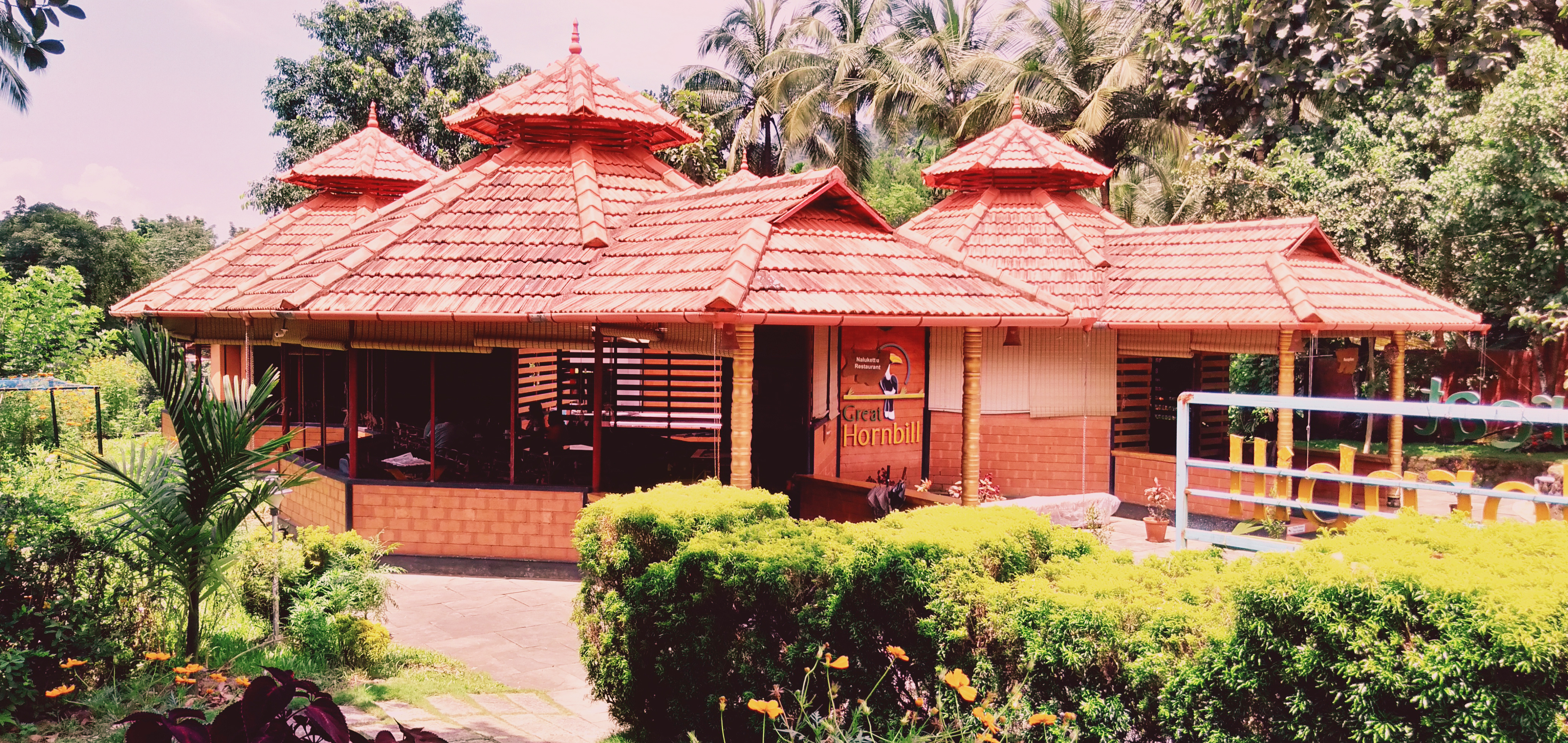 Front view of the resort